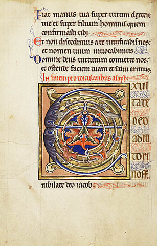 Page from a French Psalter, John Paul Getty Museum, Los Angeles, Ms 66